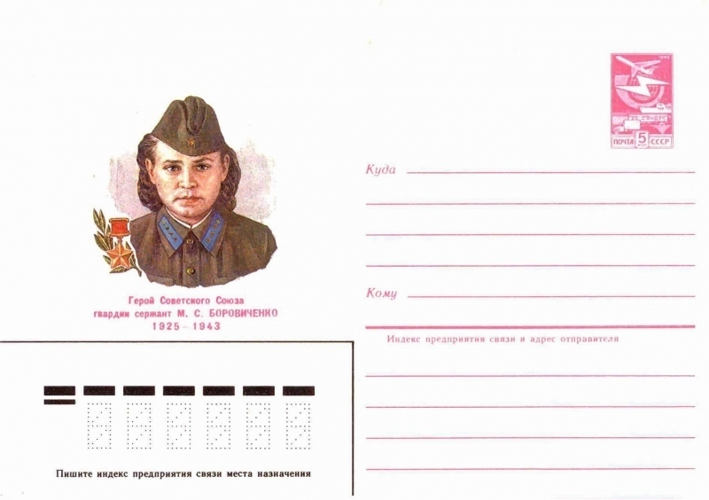 Illustrated stamped envelope with definitive stamp of the Soviet Union of 1985 featuring Hero of the Soviet Union Mariya Borovichenko.